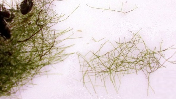 Cladophora glomerata